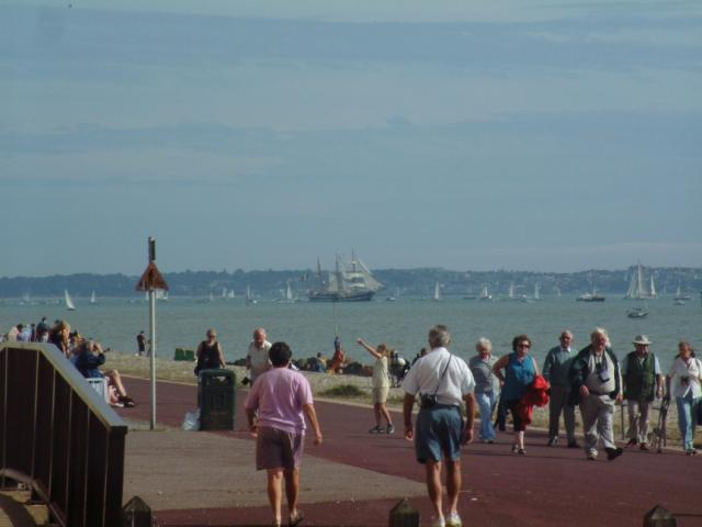 Lee-on-Solent, Hants Looking into the Solent from Lee-on-Solent at the Tall Ships, August 2002